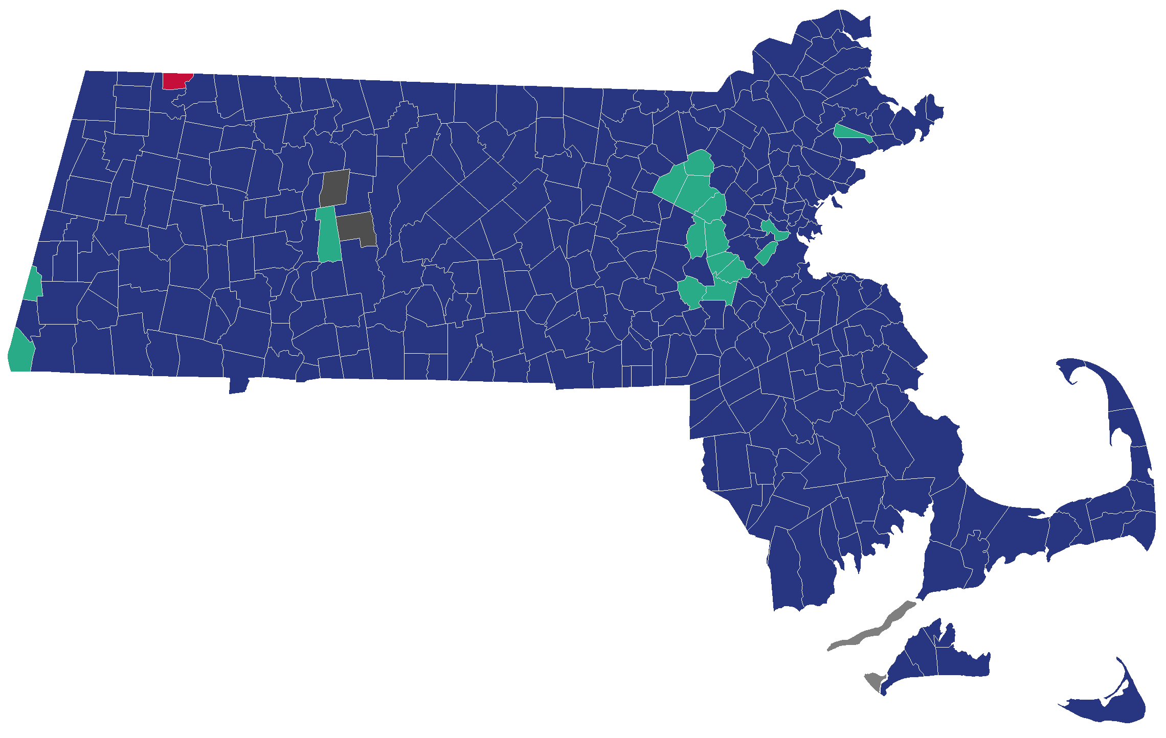 Election results of the 2016 Republican Presidential Primary Legend Donald Trump John Kasich Marco Rubio Tie Vote yet counted